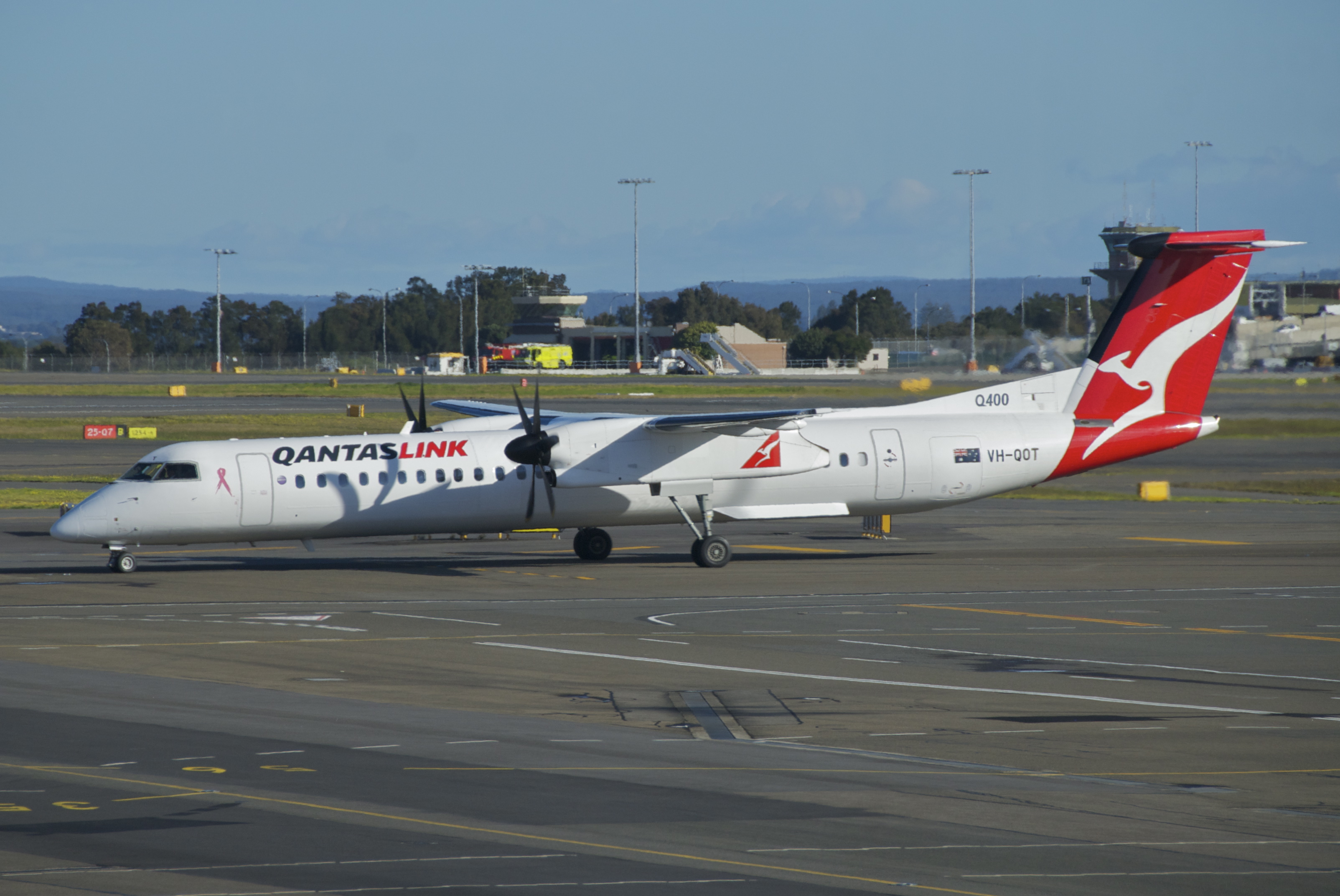 Qantas Link DHC-8-400 Dash 8; VH-QOT@SYD;06.07.2012/661cs